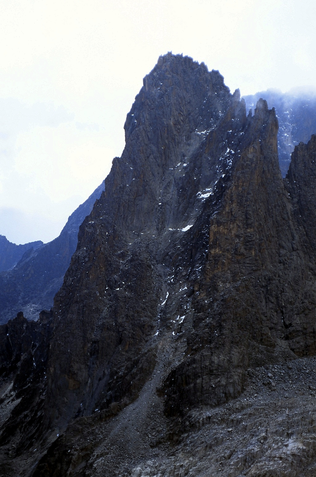 Point John, 4883m showing the SE Gully, the line of the first ascent by Shipton and Russel.